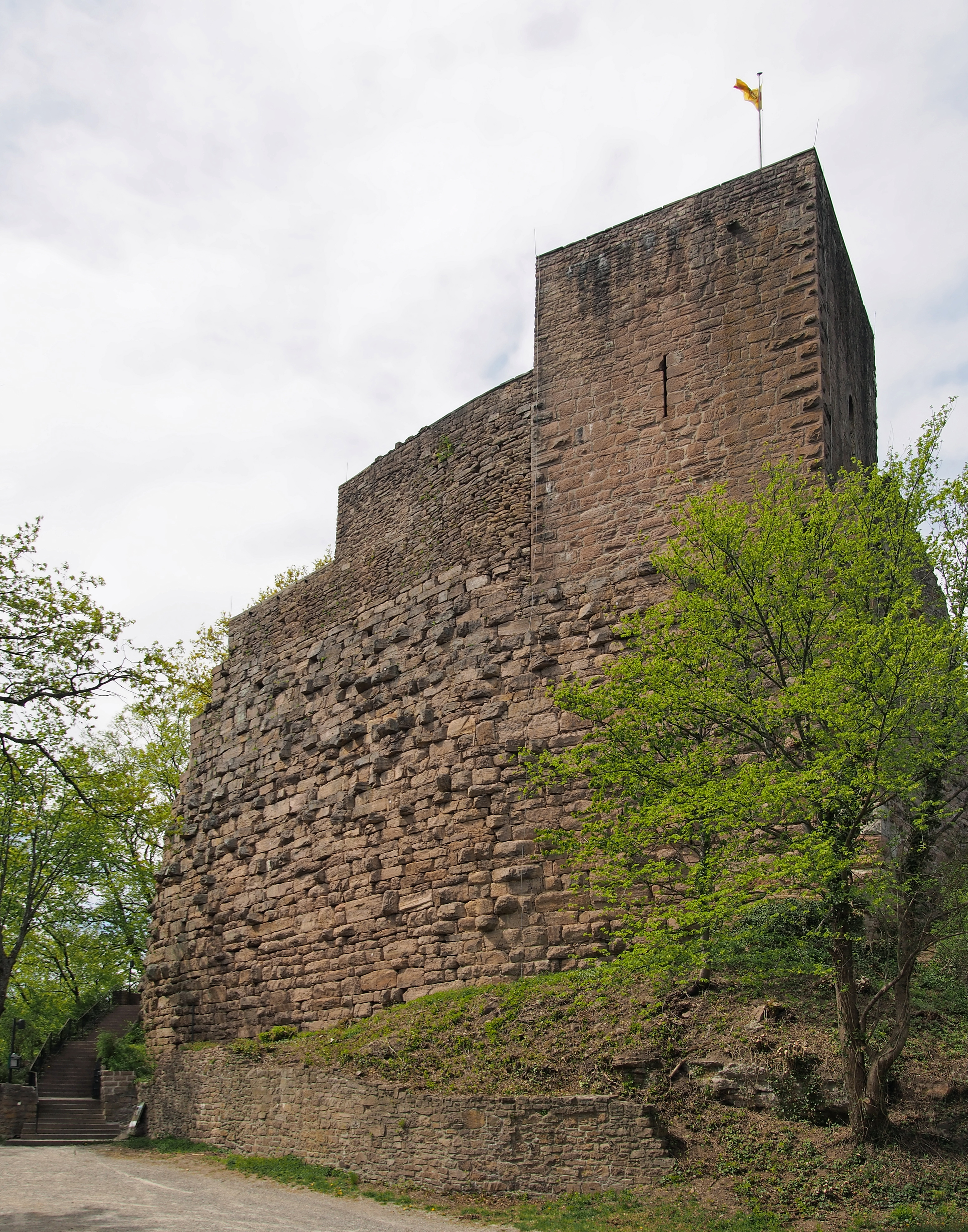 Castle Alt-Eberstein, German Federal State Baden-Württemberg.